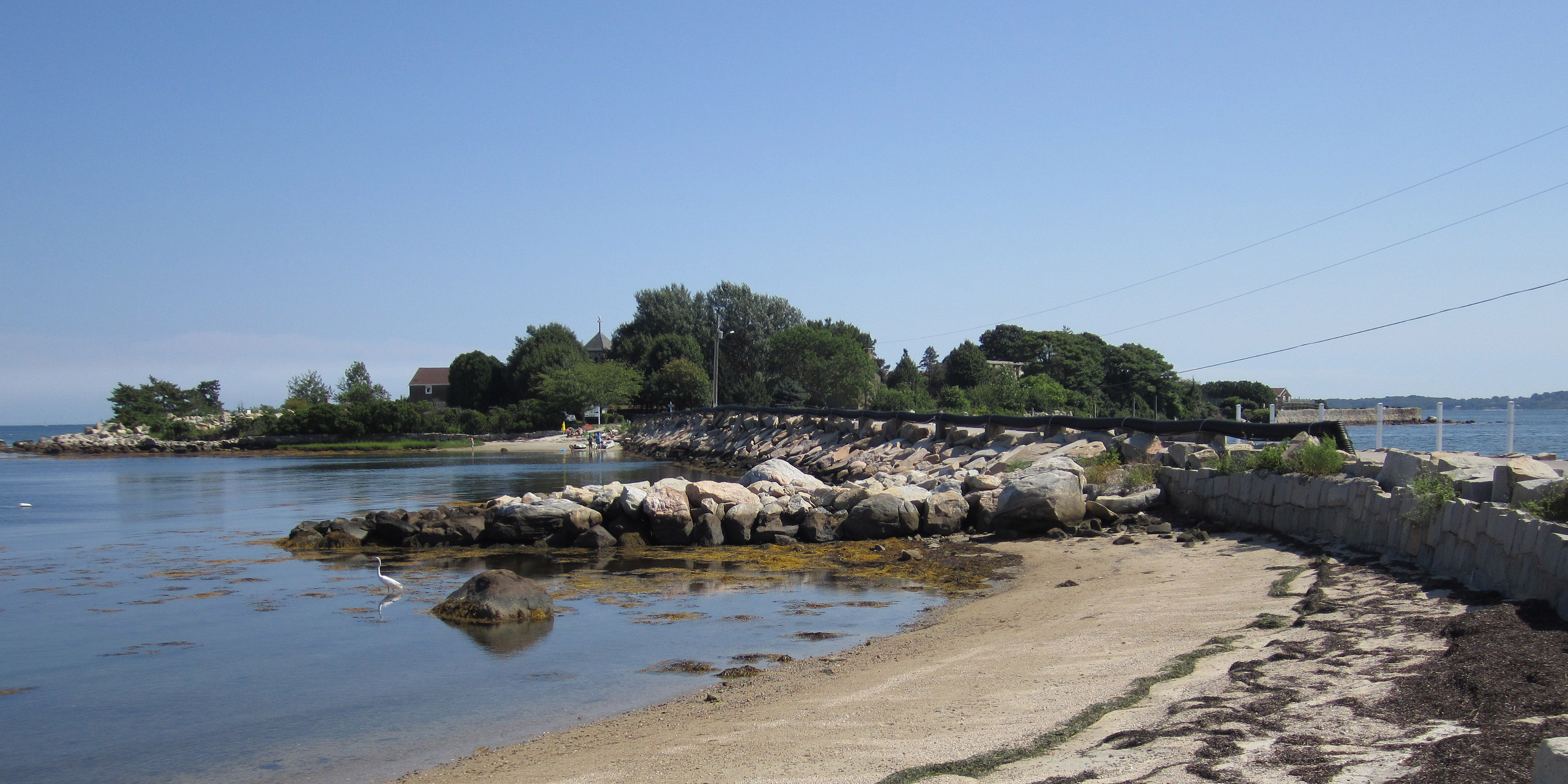 The causeway in the foreground, leading from Mason's Island to Enders Island in Mystic, CT.